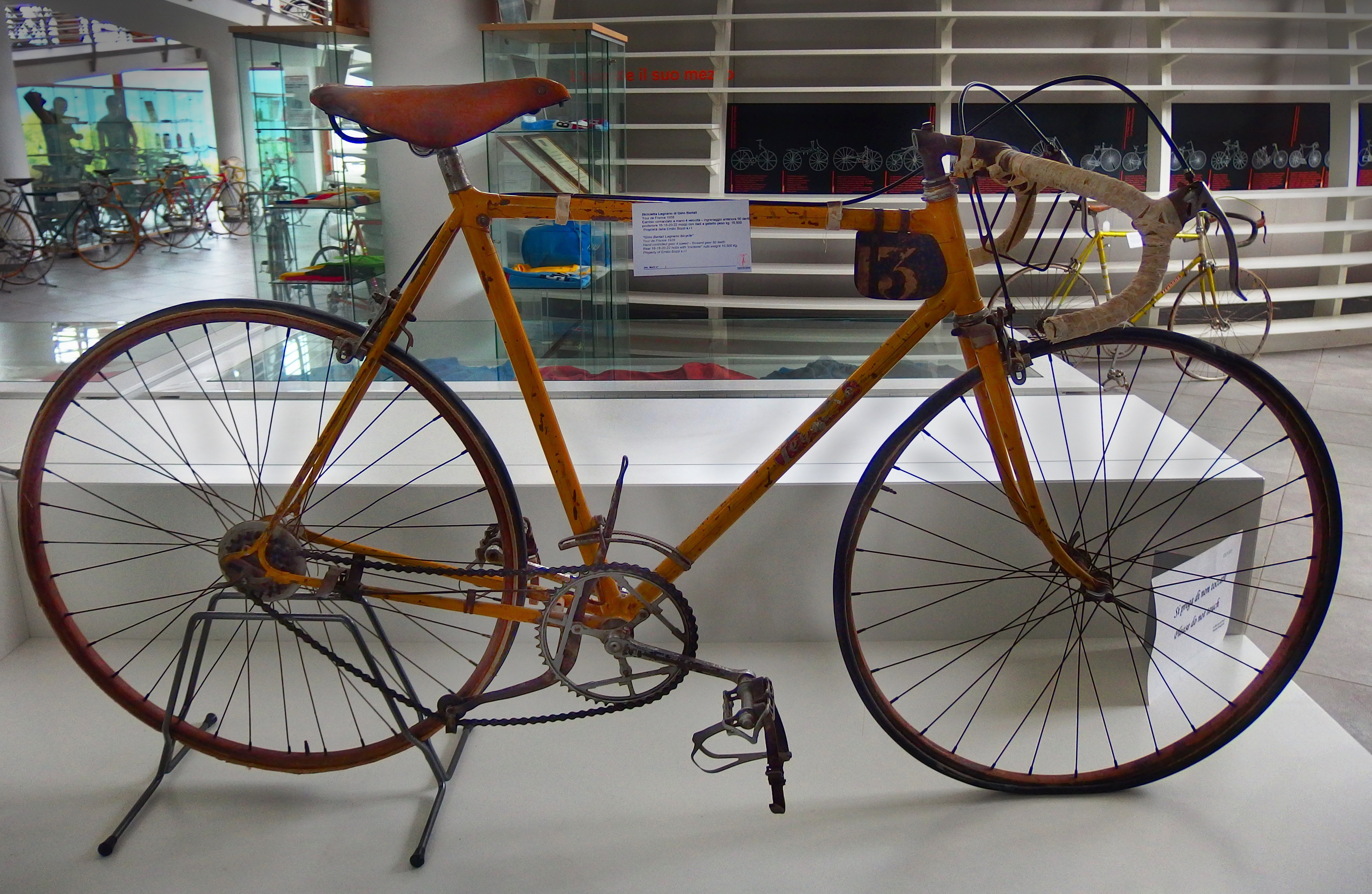 Museo del Ciclismo Madonna del Ghisallo, Gino Bartali winning bicycle on Tour de France 1938.